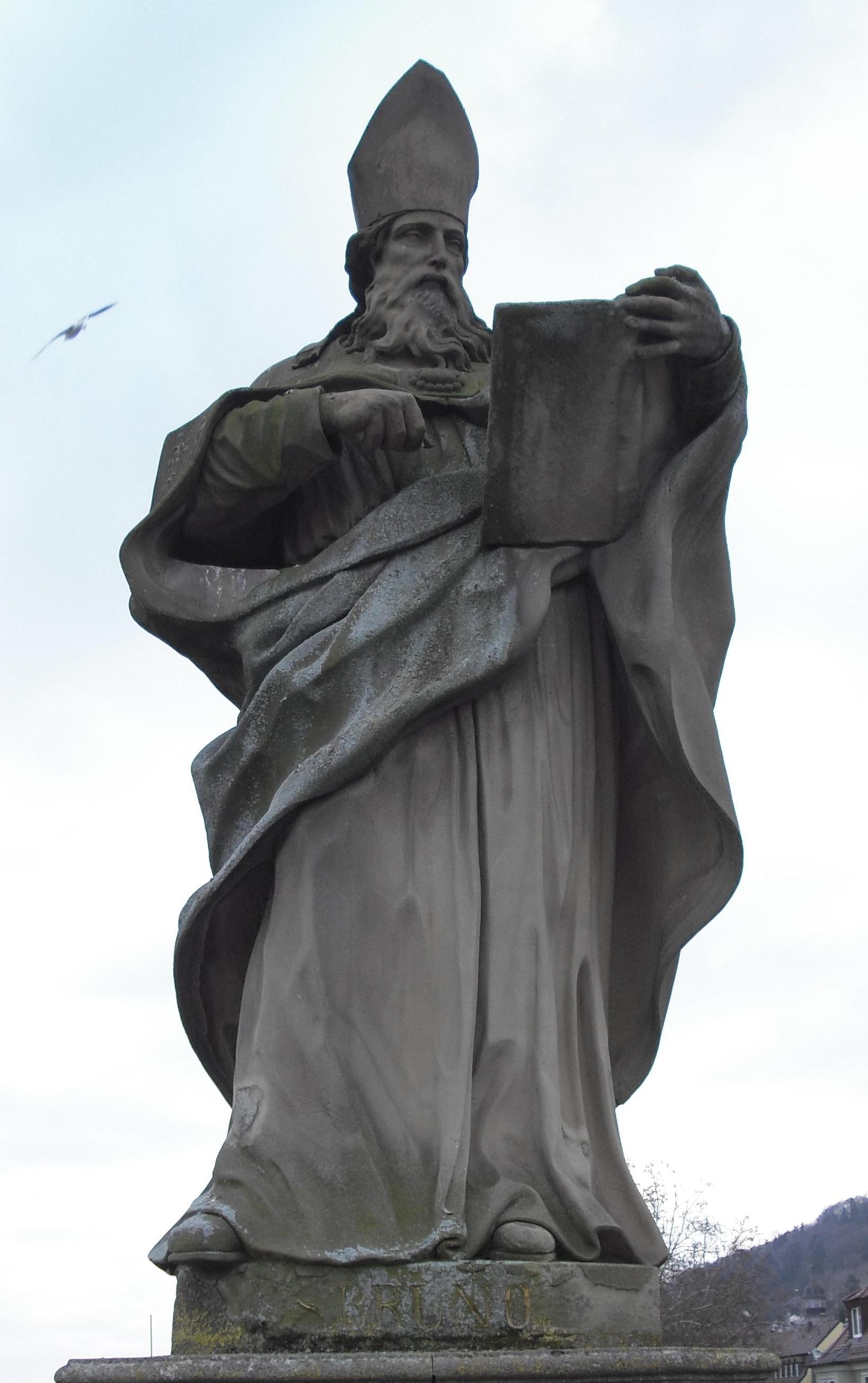 The statue of Saint Bruno on Würzburg's Alte Mainbrücke.